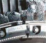 Engine turbine damage from TACA flight 110. Date is approximate.